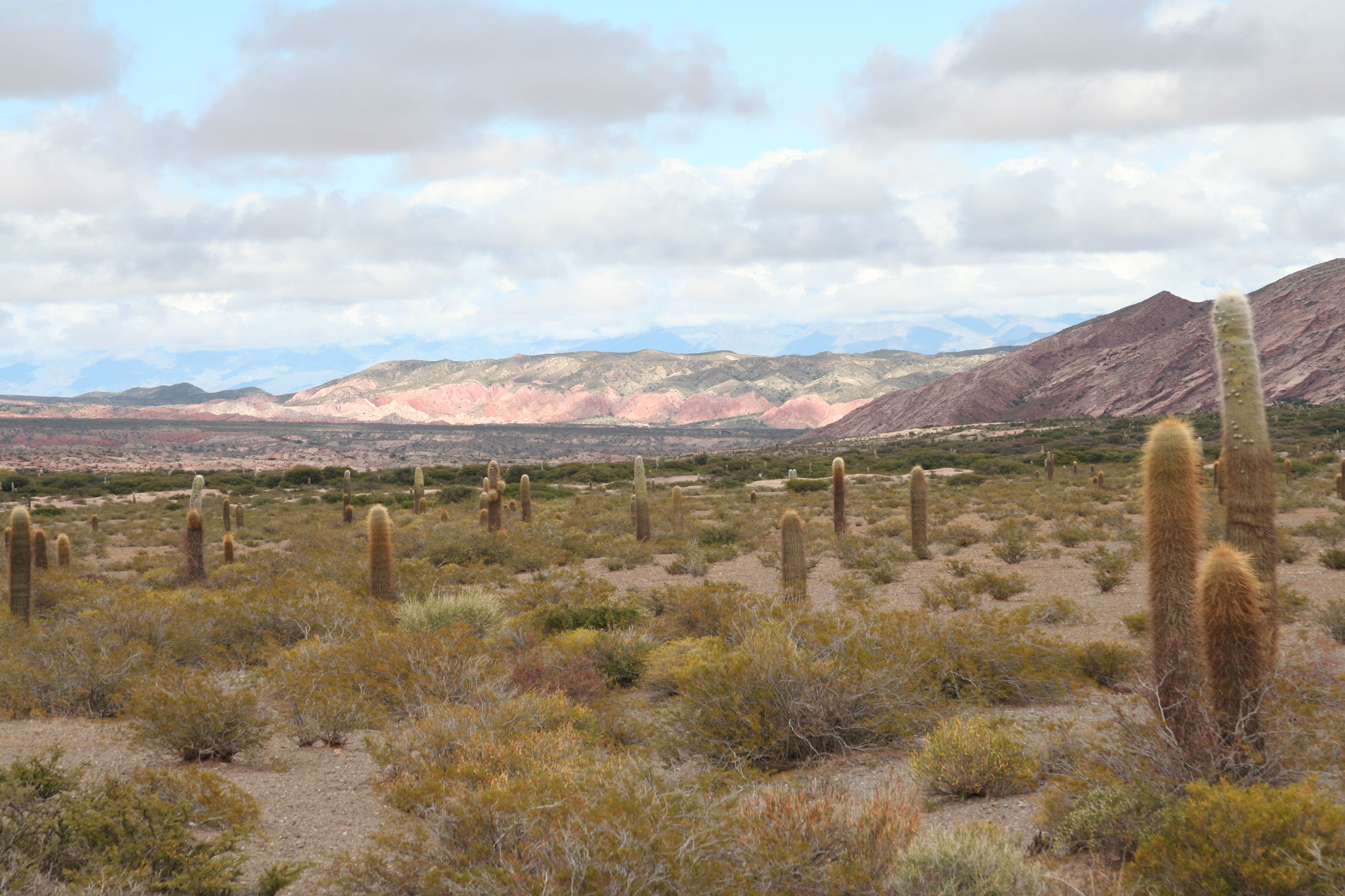 Los Cardones National Park, Salta (Argentina).